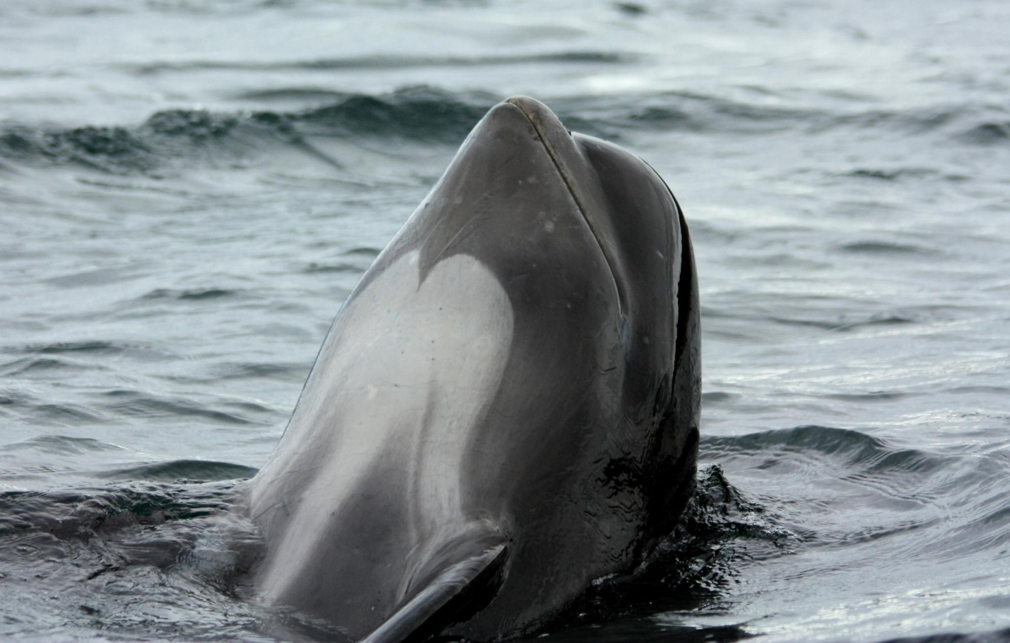 Long-finned pilot whale spyhopping in Cape Breton Island, Nova Scotia, Canada